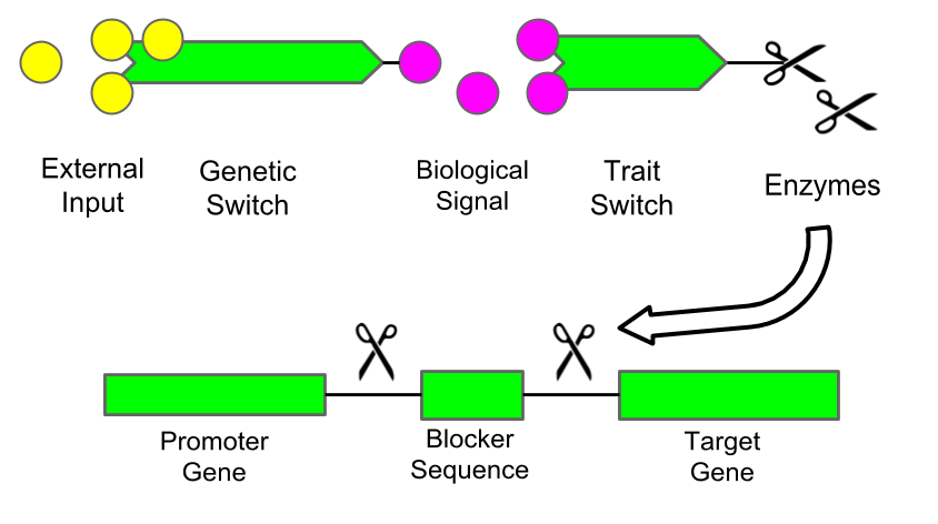 A diagram of one method in Genetic use restriction technology.